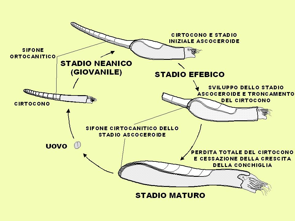 Ontogeny of Ascocerids (Nautiloidea).